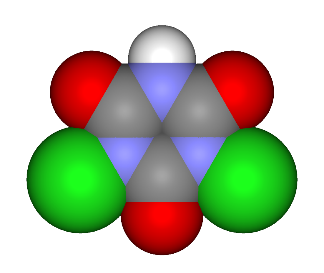 Spacefilling model of troclosene (also known as dichlor, IUPAC name 1,3-dichloro-1,3,5-triazinane-2,4,6-trione). Created using Accelrys DS Visualizer Pro 1.6 and the GIMP.